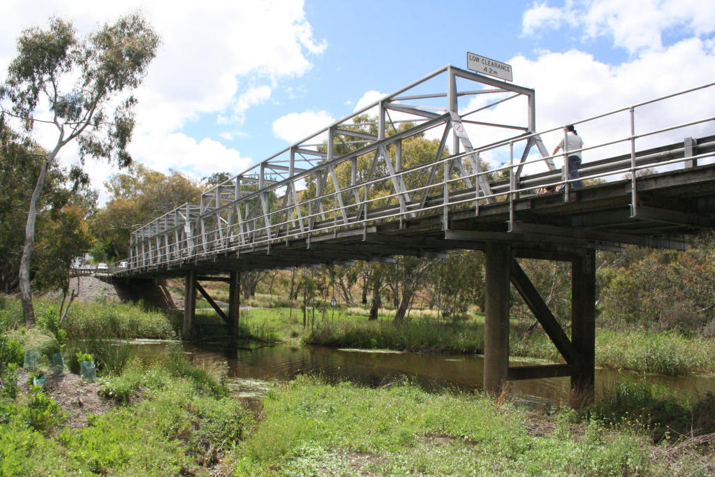 Queens Park Bridge - Geelong, Victoria, Australia